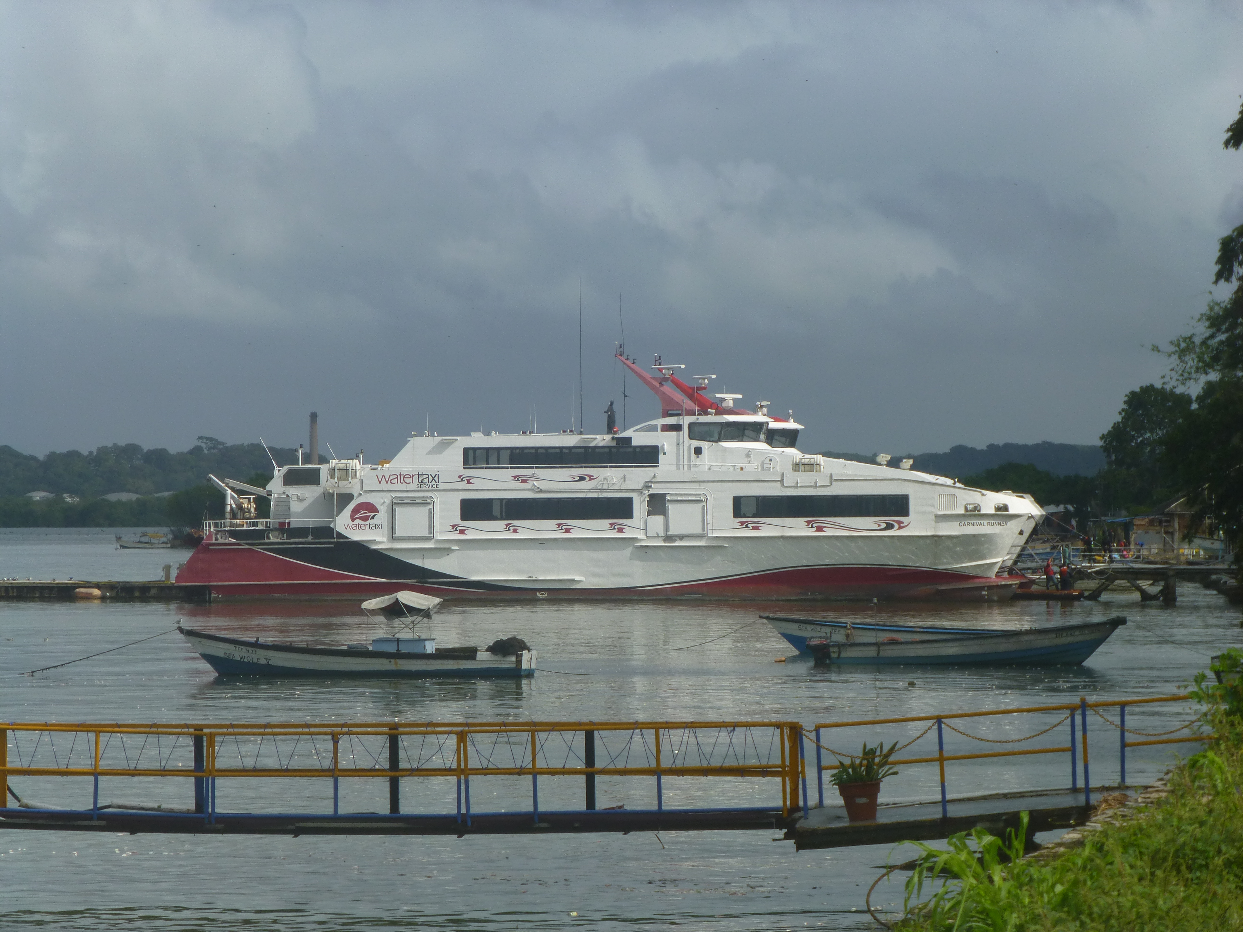 Passenger Ship Carnival Runner at San Fernando harbour, Trinidad and Tobago. Ferry running through the Gulf of Paria from Port of Spain to San Fernando and back.